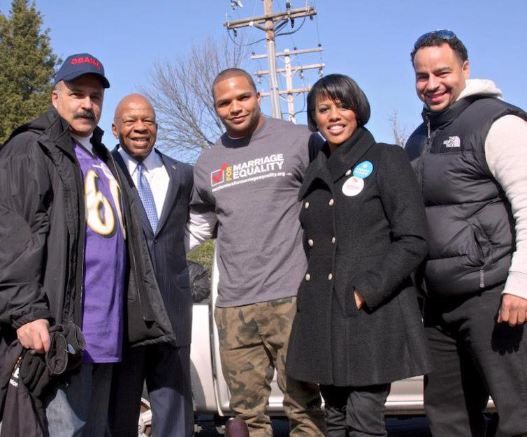 Ravens linebacker Brendon Ayanbadejo with the Mayor of Baltimore. Congressman E. Cummings and De. C. Anderson on election day 2013 in Baltimore